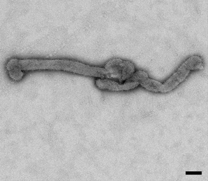 Electron microscopic images of novel Thogotovirus isolate, Bourbon virus. Filamentous virus particle with distinct surface projection are visible in culture supernatant that was fixed in 2.5% paraformaldehyde. Scale bar indicates 100 nm. Figure 2a from Kosoy OI, Lambert AJ, Hawkinson DJ, et al. (2015) Novel Thogotovirus species associated with febrile illness and death, United States, 2014. Emerging Infectious Diseases